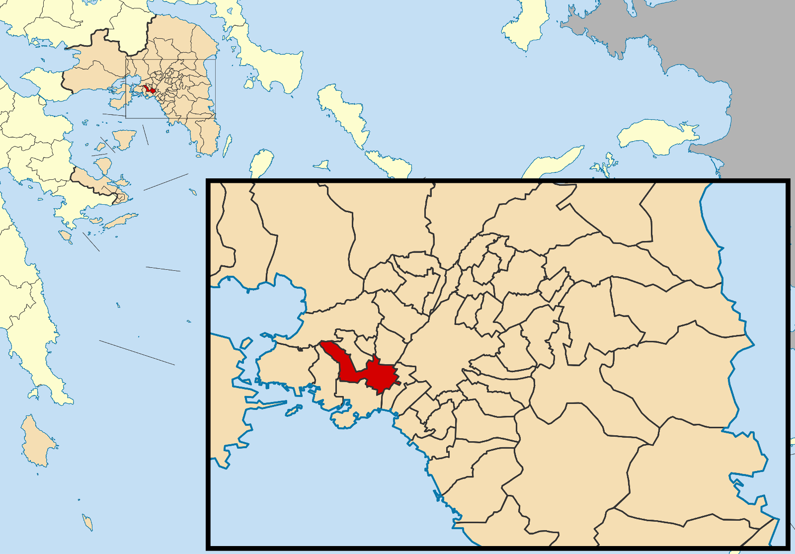 Locator map for Nikea-Agios Ioannis Rendis municipality in Greek region Attica (2011)